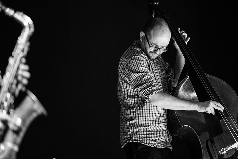 Olie Brice in Aarhus Denmark 2018